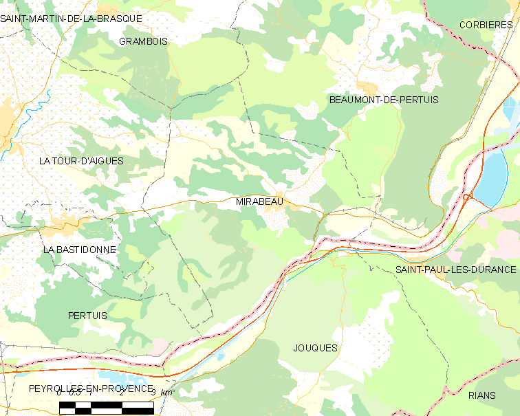 Map of French municipality Mirabeau